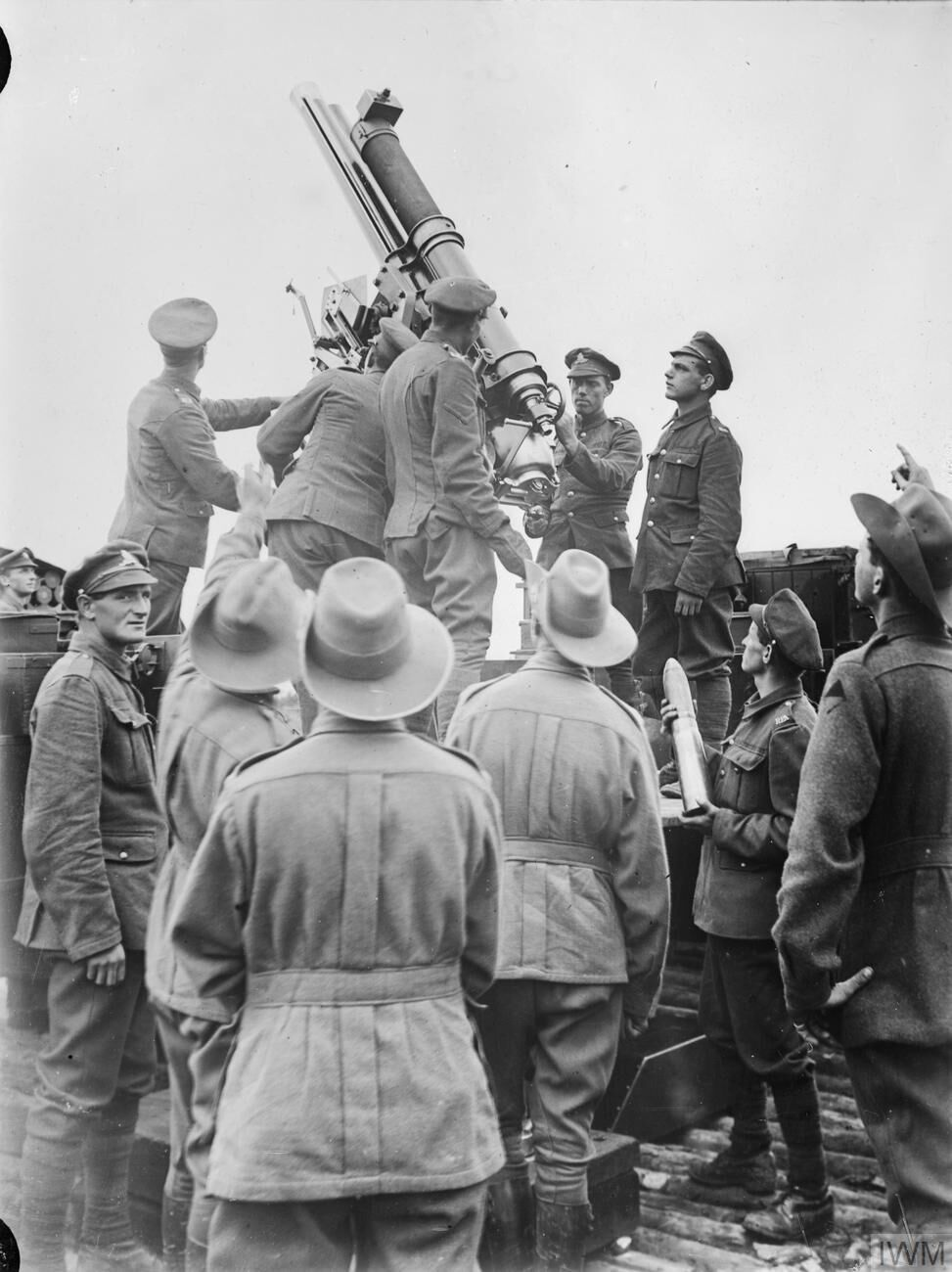 THE THIRD BATTLE OF YPRES (PASSCHENDAELE) 31 JULY - 10 NOVEMBER 1917 Australian troops watching British soldiers manning an anti-aircraft gun at Morbecque. Location : Western Front: Western Front (France), Nord Region (France) Morbecque Comment : this is a 13 pounder 9 cwt gun mounted on a lorry. The recuperator, above the barrel, has the armoured box-shaped oil reservoir at the front end, developed to extend the life of the 18 pounder's recuperator springs. It is part of the same shoot as Image:AAGunMorbecque29August1917-2.jpeg NOTE : This version of the photograph has brightness and contrast artificially increased to highlight details.